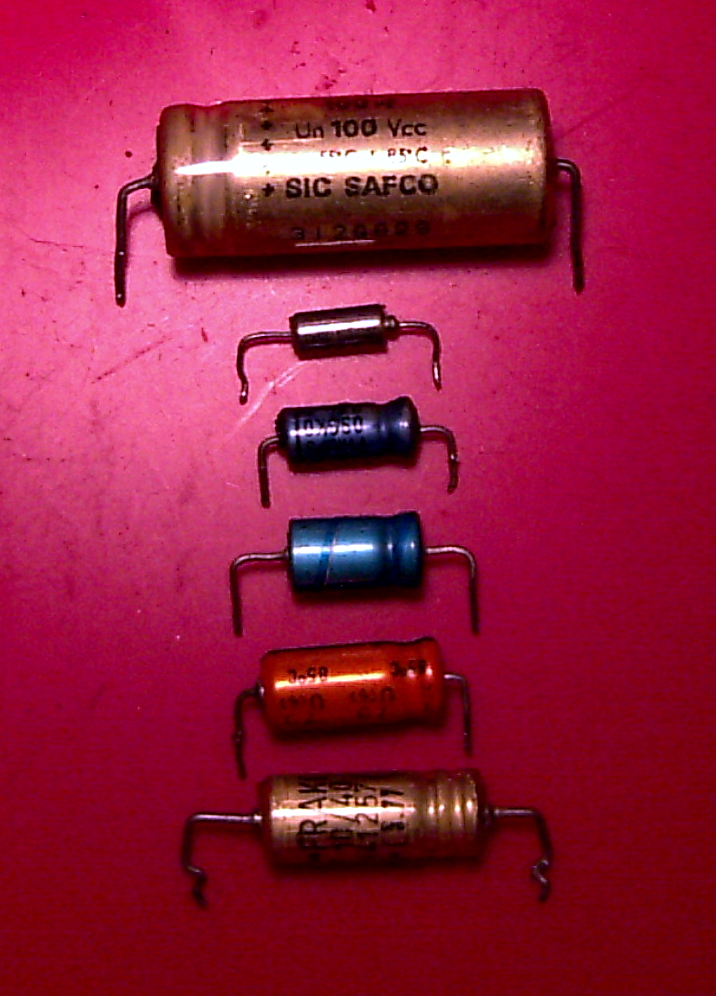 Axial electrolytic capacitors.